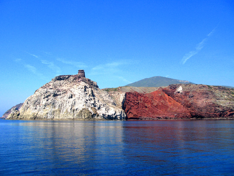 Torre dello Zenobito and Cala Rossa cliffs — Capraia Isola. Within the Arcipelago Toscano National Park and marine sanctuary.